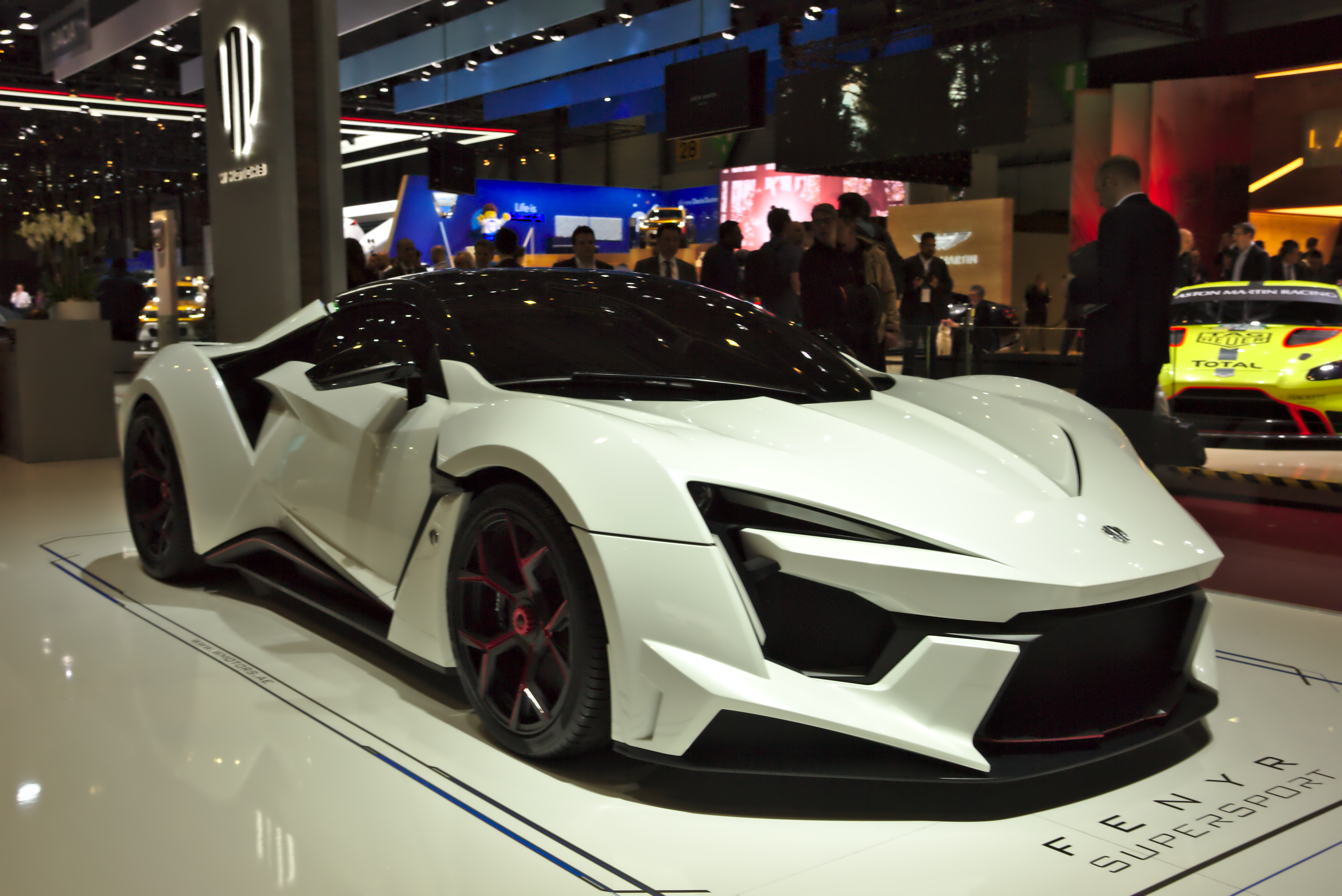 W Motors Fenyr Supersport Concept at Geneva Motorshow 2018